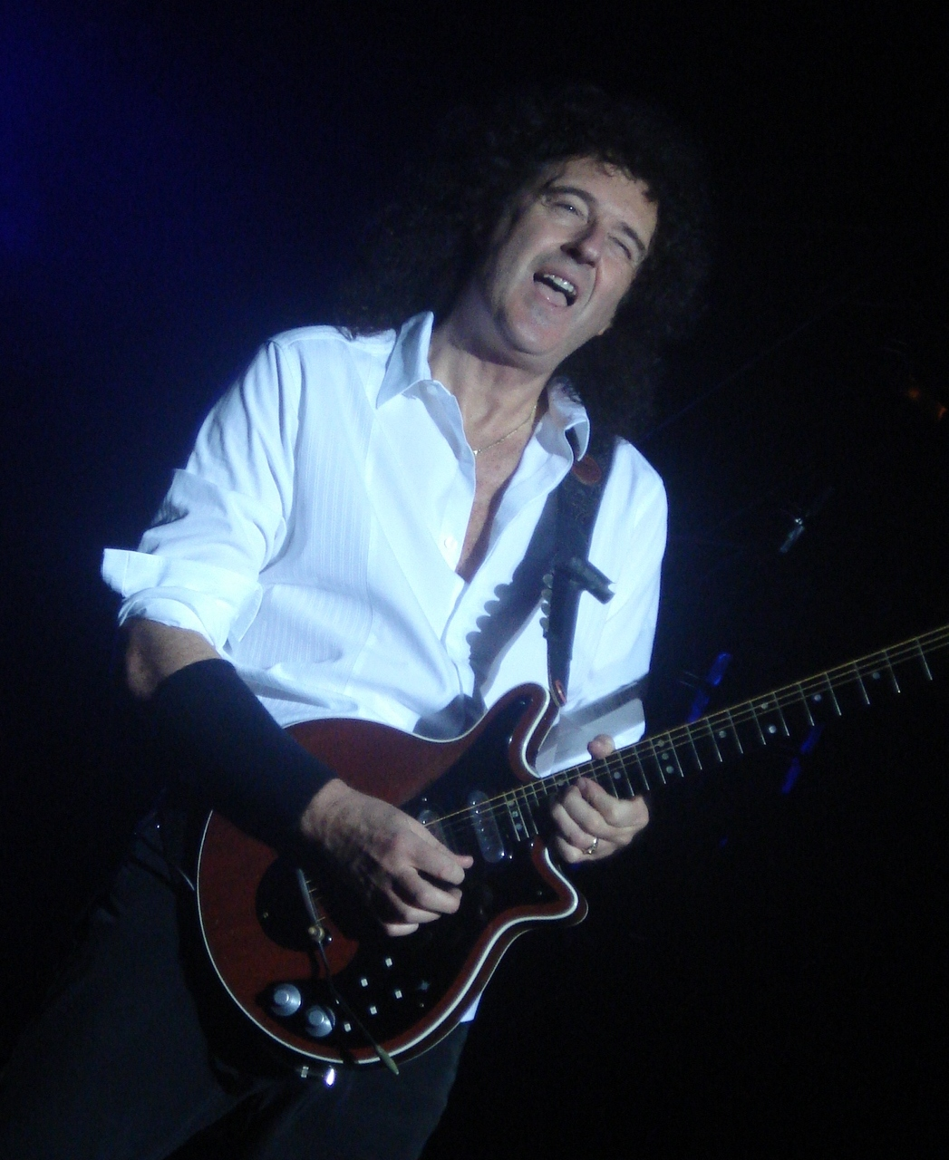 Queen Live, San Carlos de Apoquindo Stadium, Chile.